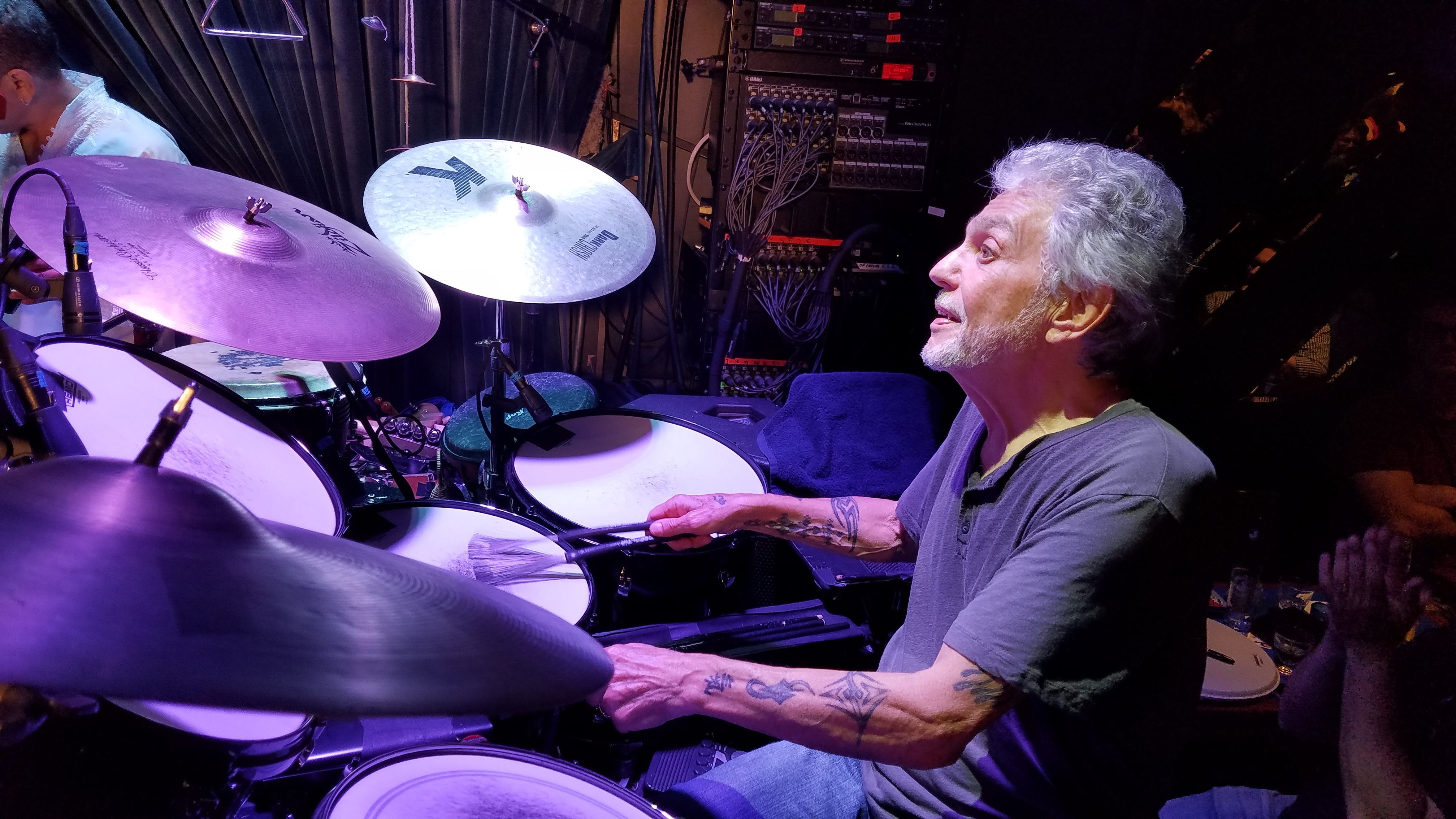 Steve Gadd playing with the brushes while keeping an eye on Chick Corea during their show together at the Blue Note, NYC, on Friday, September 29, 2017. Photo by Joe Schilp